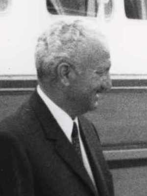 Imer Pulja is a politician